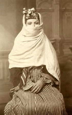 Bonfils photograph 619: Jeune femme de Naplouse